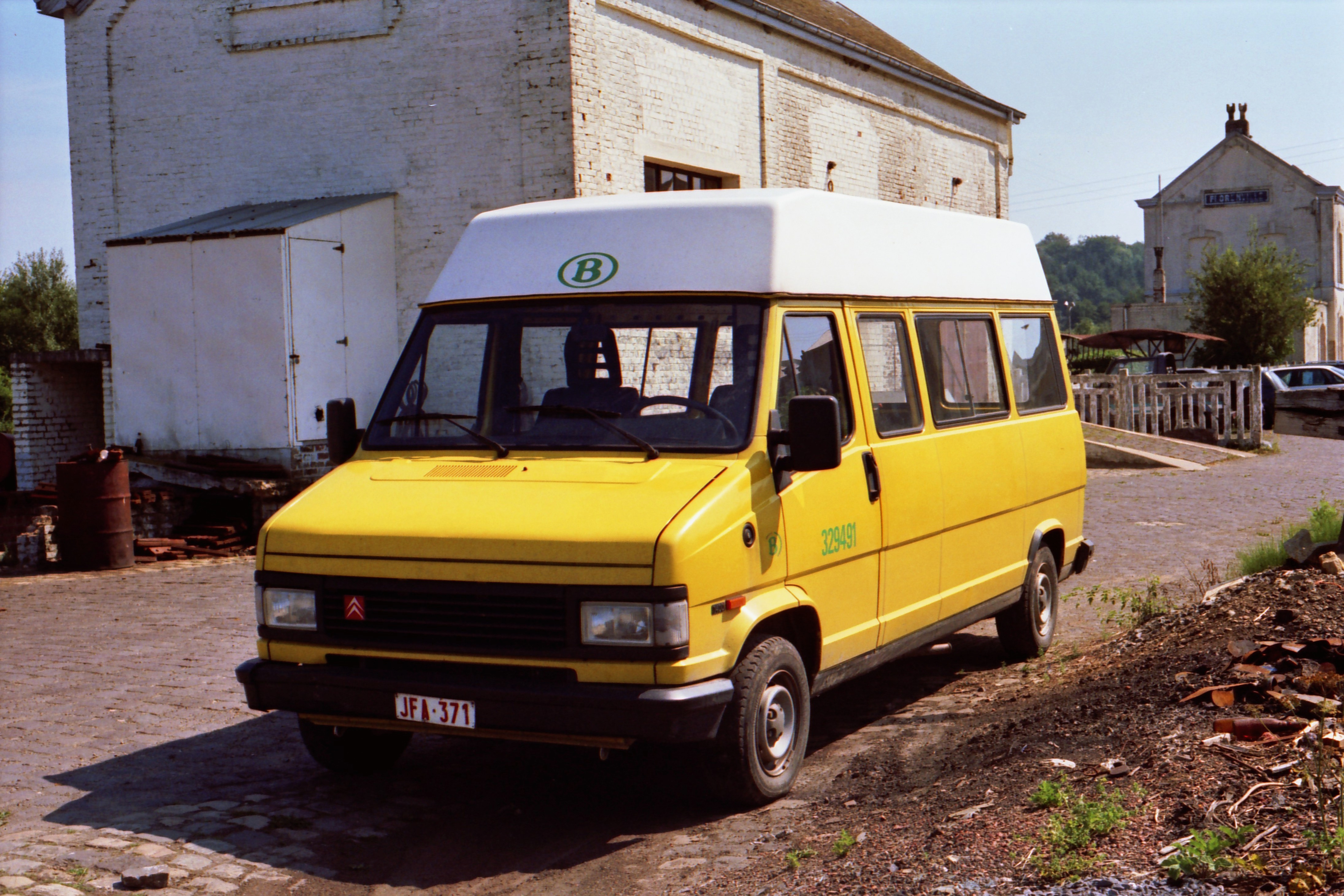 Citroën C25 Florenville